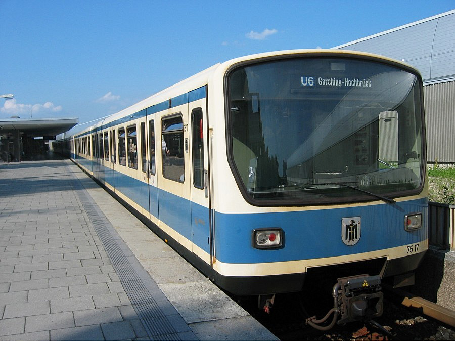 Munich subway type B at Freimann station